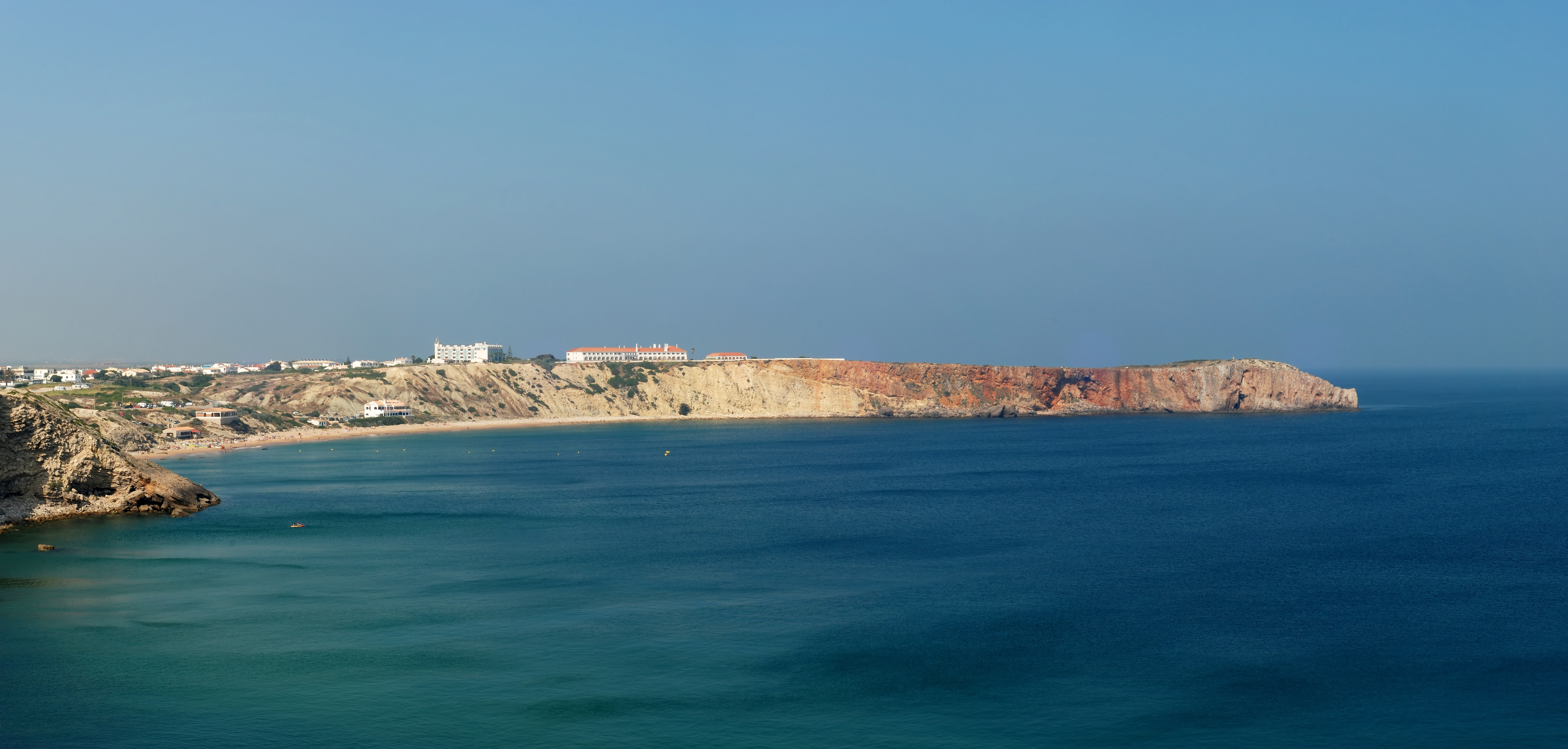 South of Portugal.View from Sagres' promontory, to northeast (Marreta's beach).